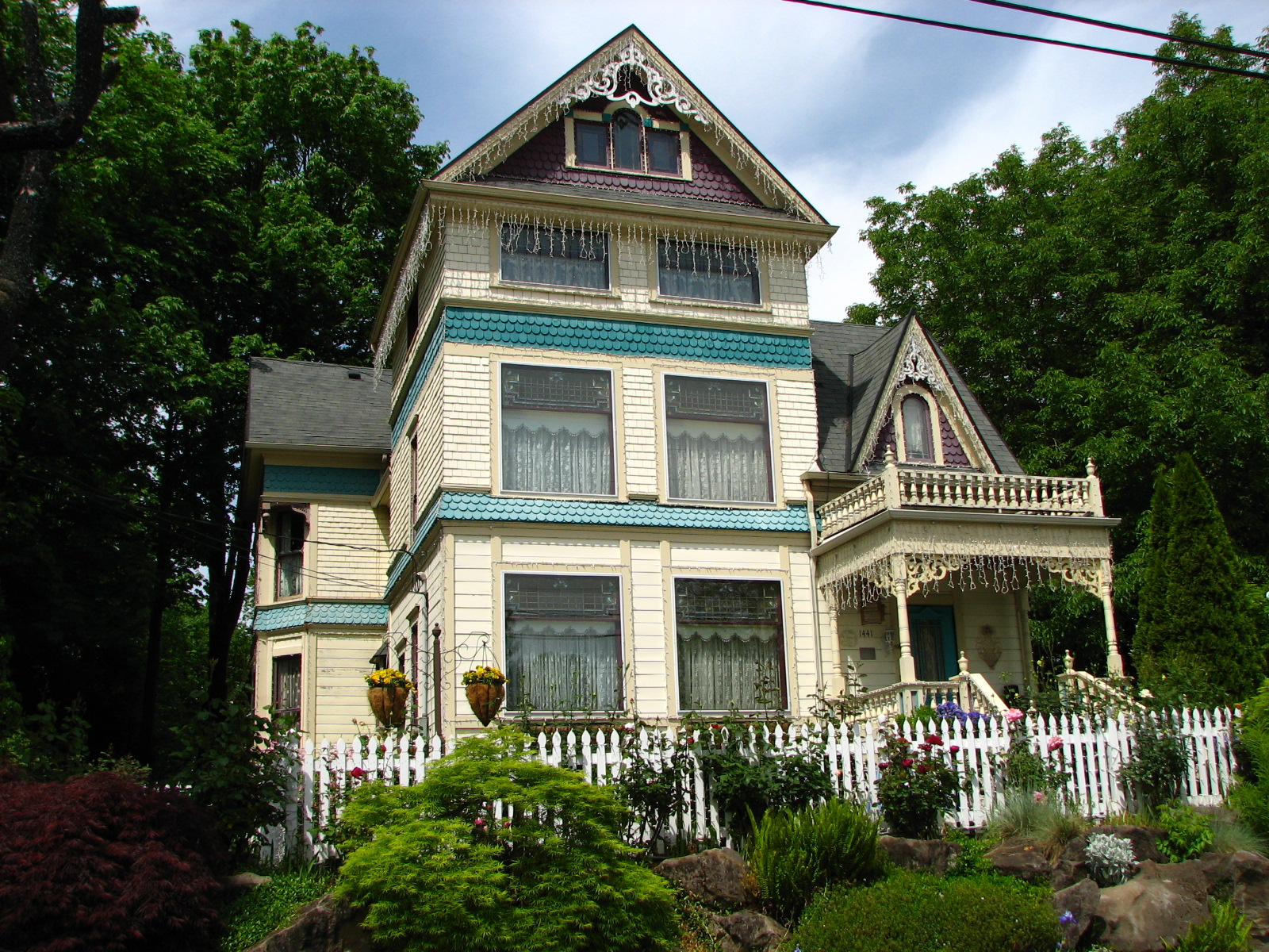 The historic David Cole House (built 1885), located at 1441 North McClellan Street in Portland, Oregon, United States, is listed on the US National Register of Historic Places. It is presently in use as a commercial event venue.